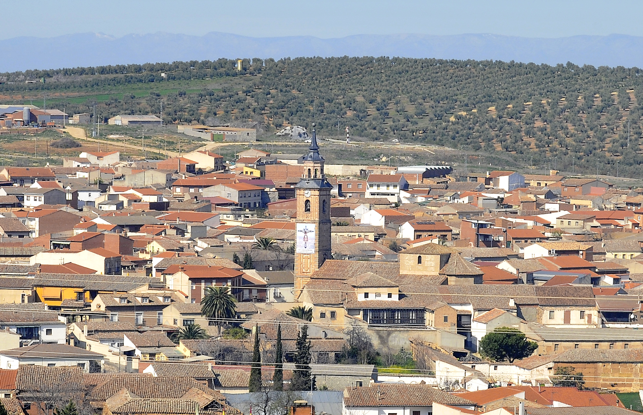 View of Los Nvalmorales from east. Toledo, Castile-La Mancha, Spain